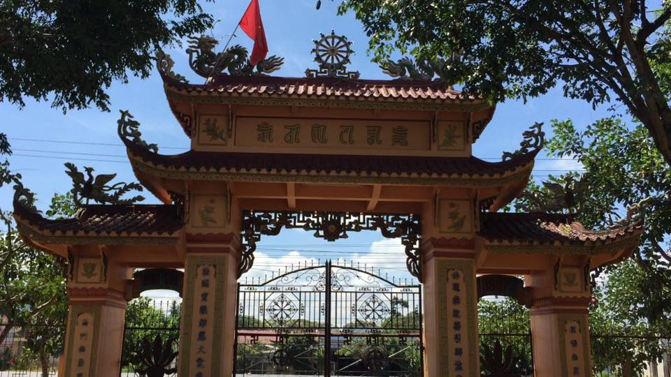 Triple gate